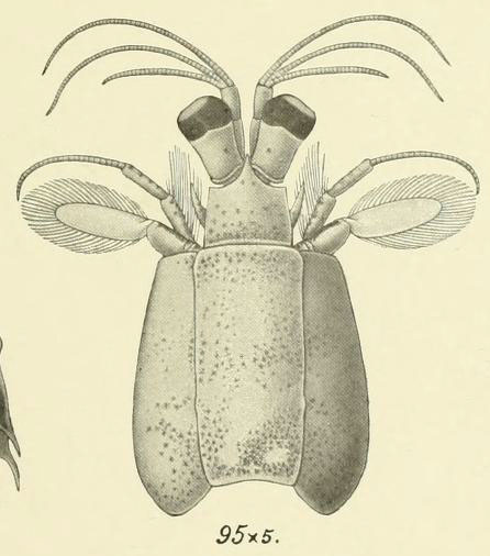 Captioned as: Lysiosquilla tigrina Nobili, 1903. Now known as Acanthosquilla tigrina (Nobili, 1903). "Carapace and anterior appendages of the type specimen."